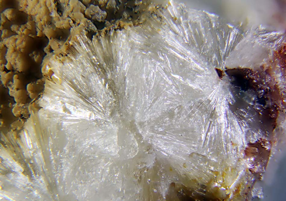 Outstanding white crystals of the extremely rare new mineral fluorwavellite (IMA 2015-077), the fluorine analog of wavellite, known from only four localities worldwide. From: Willard Mine, Pershing County, Nevada, United States of America.